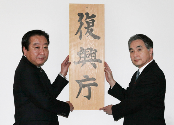 Yoshihiko Noda, Prime Minister, and Tatsuo Hirano, Minister for Reconstruction, hung up a signboard for the Reconstruction Agency at the Sankaido Building in Minato Ward, Tōkyō Metropolis on February 10, 2012.